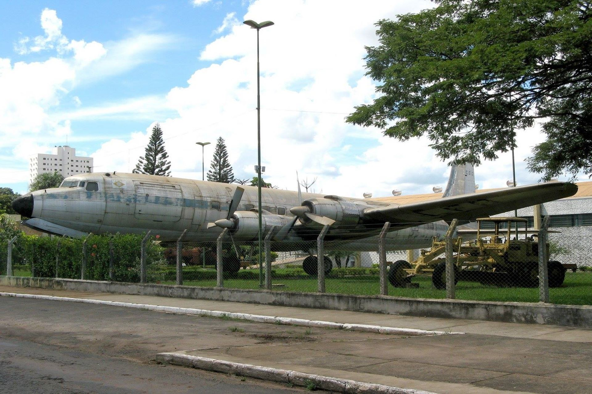 DC6 Vasp